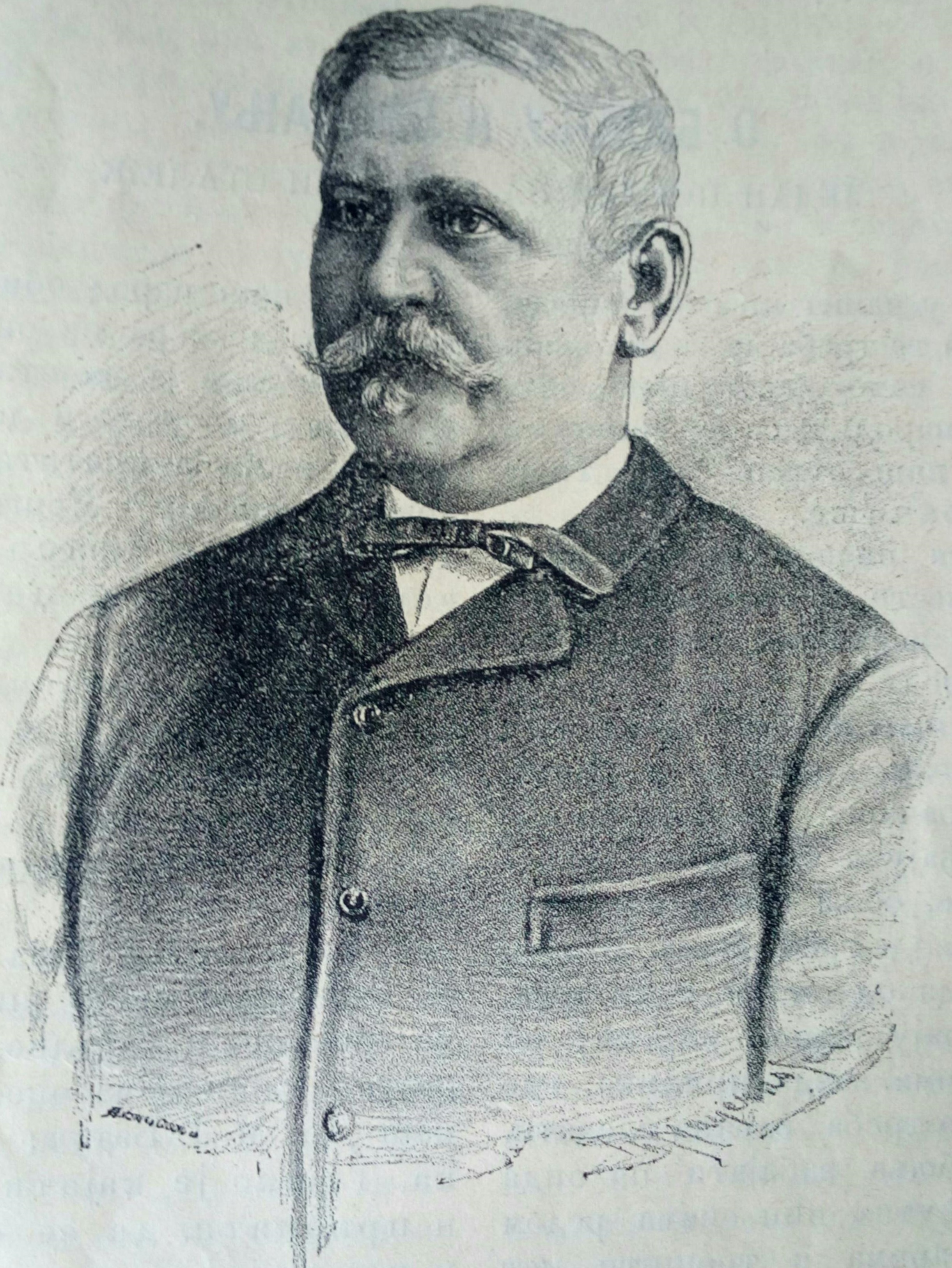 Stevan Lazić (1830-1901), Serbian professor, classical philologist, writer and director of the Karlovci Gymnasium. Taken from the 1890 edition of the Veliki srpski narodni ilustrovani kalendar Godišnjak Srpski (latinica): Stevan Lazić (1830-1901), srpski profesor, klasični filolog, književnik i direktor Karlovačke gimnazije. Preuzeto iz izdanja Velikog srpskog narodnog ilustrovanog kalendara Godišnjak za 1890. godinu.